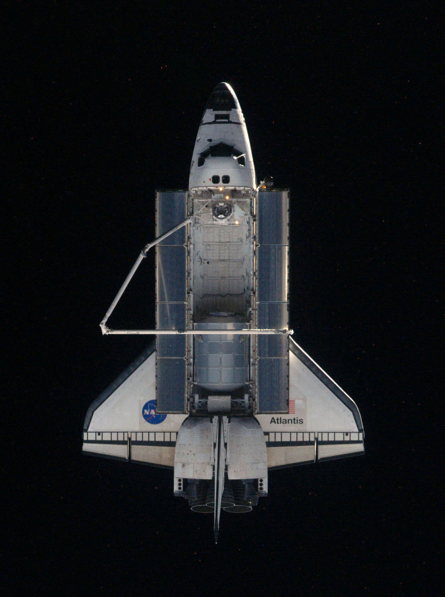 This picture of the space shuttle Atlantis was photographed from the International Space Station as the orbiting complex and the shuttle performed their relative separation in the early hours of July 19, 2011. The Raffaello multi-purpose logistics module, which transported tons of supplies to the complex, can be seen in the cargo bay. It is filled with different materials from the station for return to Earth. Onboard the station were Russian cosmonauts Andrey Borisenko, commander; Sergei Volkov and Alexander Samokutyaev, both flight engineers; Japan Aerospace Exploration astronaut Satoshi Furukawa, and NASA astronauts Mike Fossum and Ron Garan, all flight engineers. Onboard the shuttle were NASA astronauts Chris Ferguson, commander; Doug Hurley, pilot; and Sandy Magnus and Rex Walheim, both mission specialists.